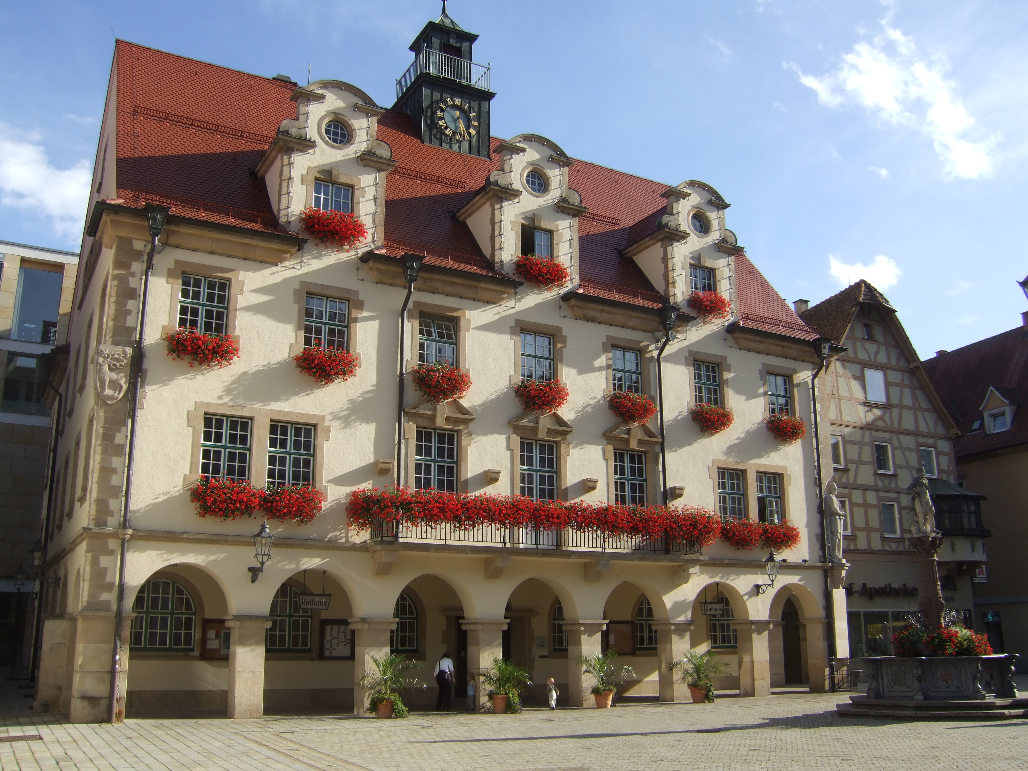 Sigmaringen Town Hall (main building)